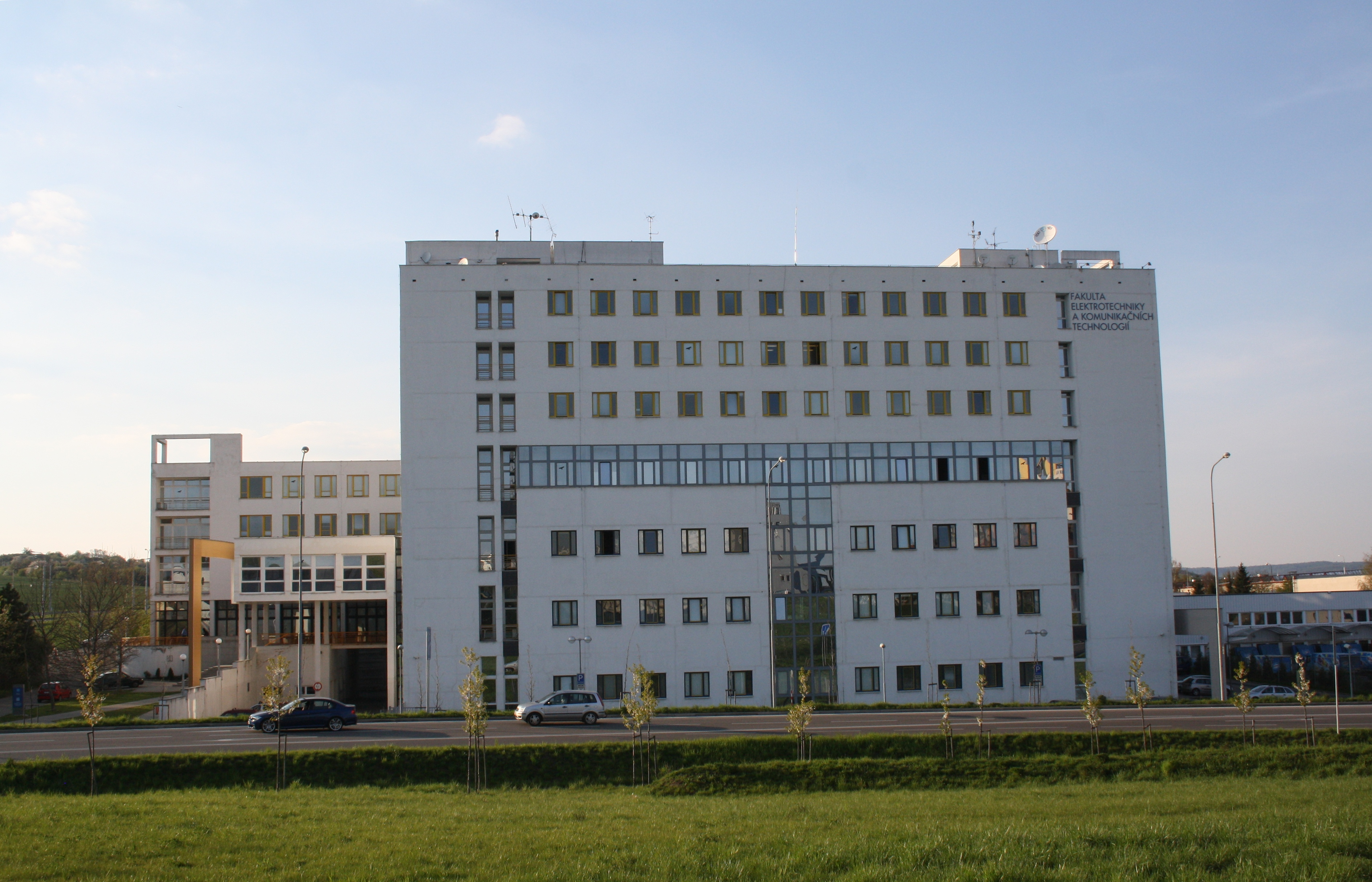 Overview of Faculty of Electrical Engineering and Communication, Brno University of Technology and Faculty of Chemistry, Brno University of Technology in Brno.